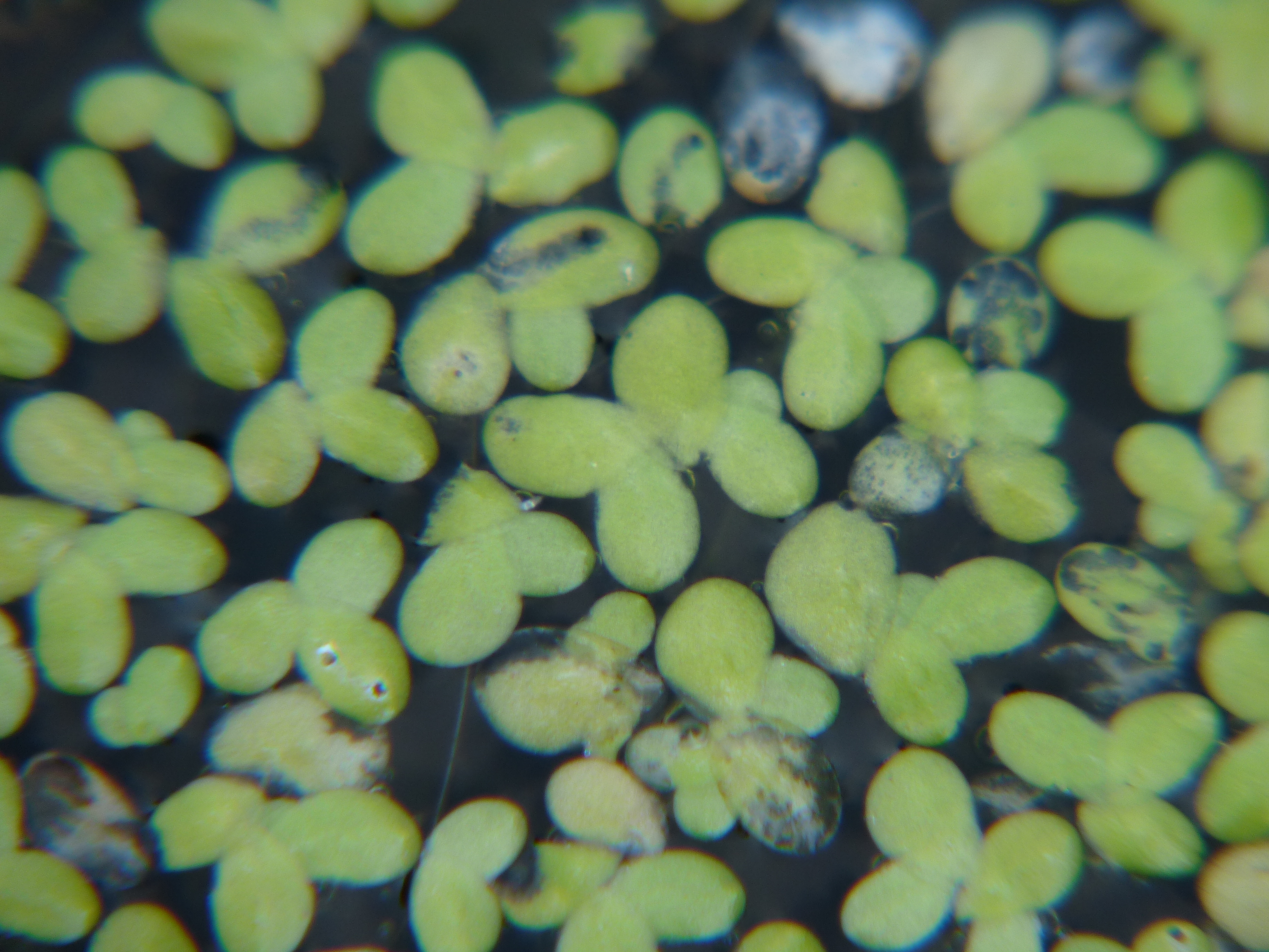 Lemna aoukikusa